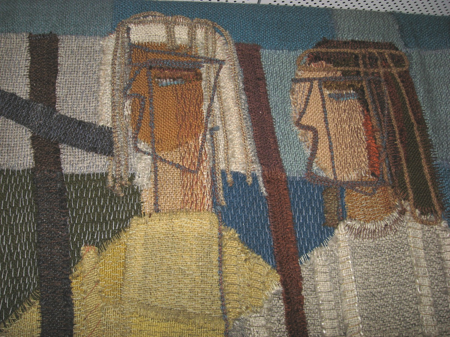 "Apostels", detail with faces of apostels. Wall hanging by Ruth von Fischer.